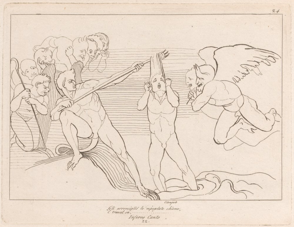 Engraving: Gli arroncigliò le impegolate from Divina Commedia by Dante - illustration designed by John Flaxman, engraved by Tommaso Piroli.